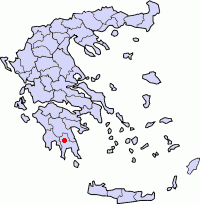 locator map, based on Image:Prefectures Greece grey.png